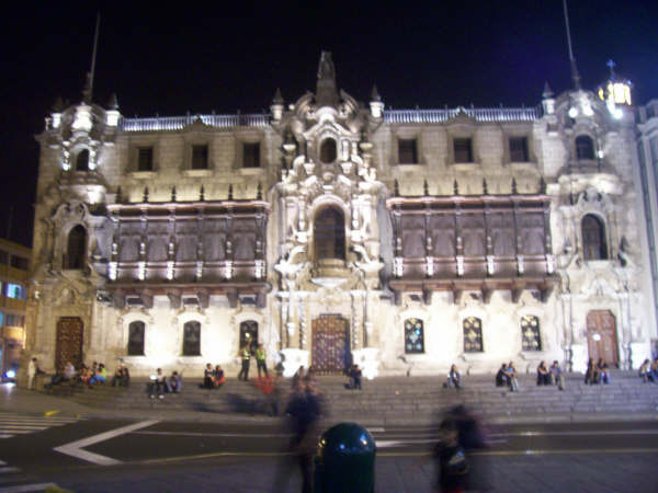 Archbishop Palace at Lima.